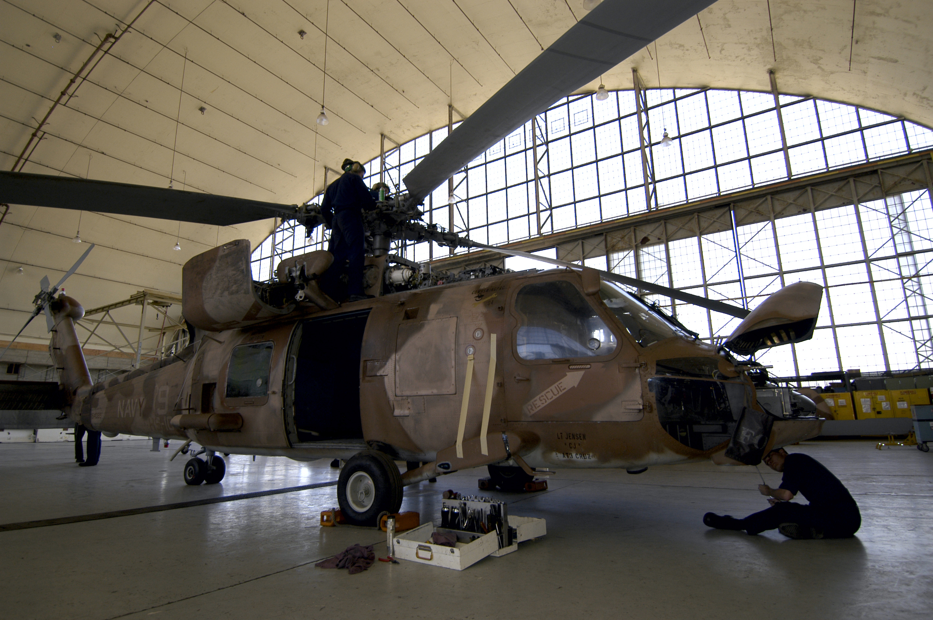 San Diego, Calif. (Feb. 4, 2005) - Aviation Structural Mechanic 2nd Class Carlos Ayala, bottom right, assigned to the “War Hawks” of Helicopter Anti-Submarine Squadron Ten (HS-10), conducts routine maintenance on an SH-60F Seahawk helicopter following a recent inspection on board Naval Air Station North Island, Calif. U.S. Navy photo by Photographer’s Mate 2nd Class Patricia R. Totemeier (RELEASED)